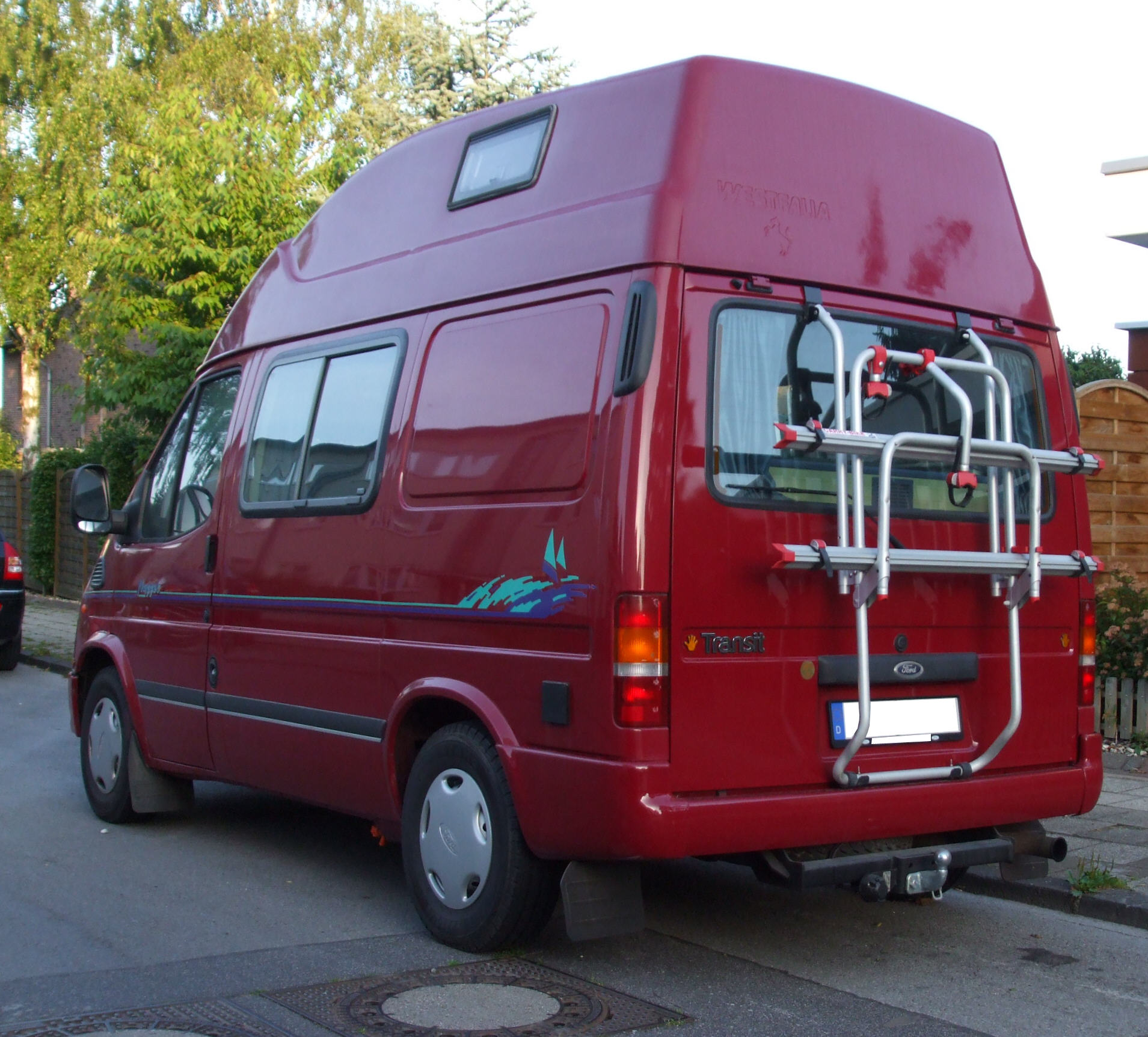 Westfalia camping vehicle «Nugget», Ford Transit ~ 1998